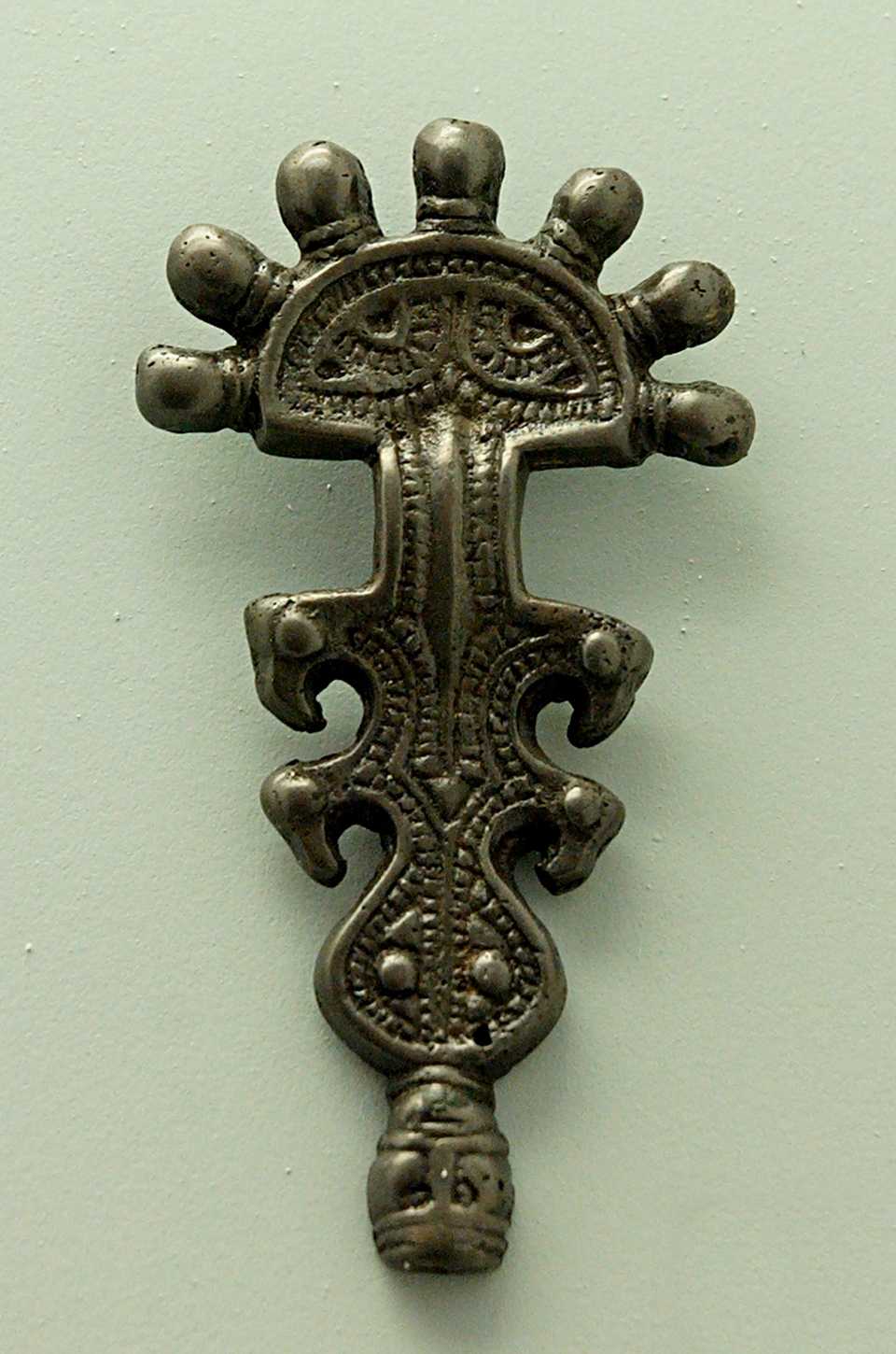 Stirrup buckle, Slavic type.